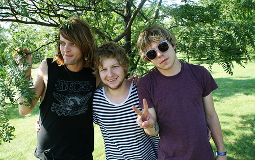 Photos of the band Cage the Elephant Camera: Canon EOS Digital Rebel XTi License on Flickr (2011-01-26): CC-BY-2.0 Flickr tags: Cage, Elephant, cage the elephant, uncensored interview, band, musicbrainz:artist=b41b38d4-ef3e-4f37-8c 75-cfe9af999696